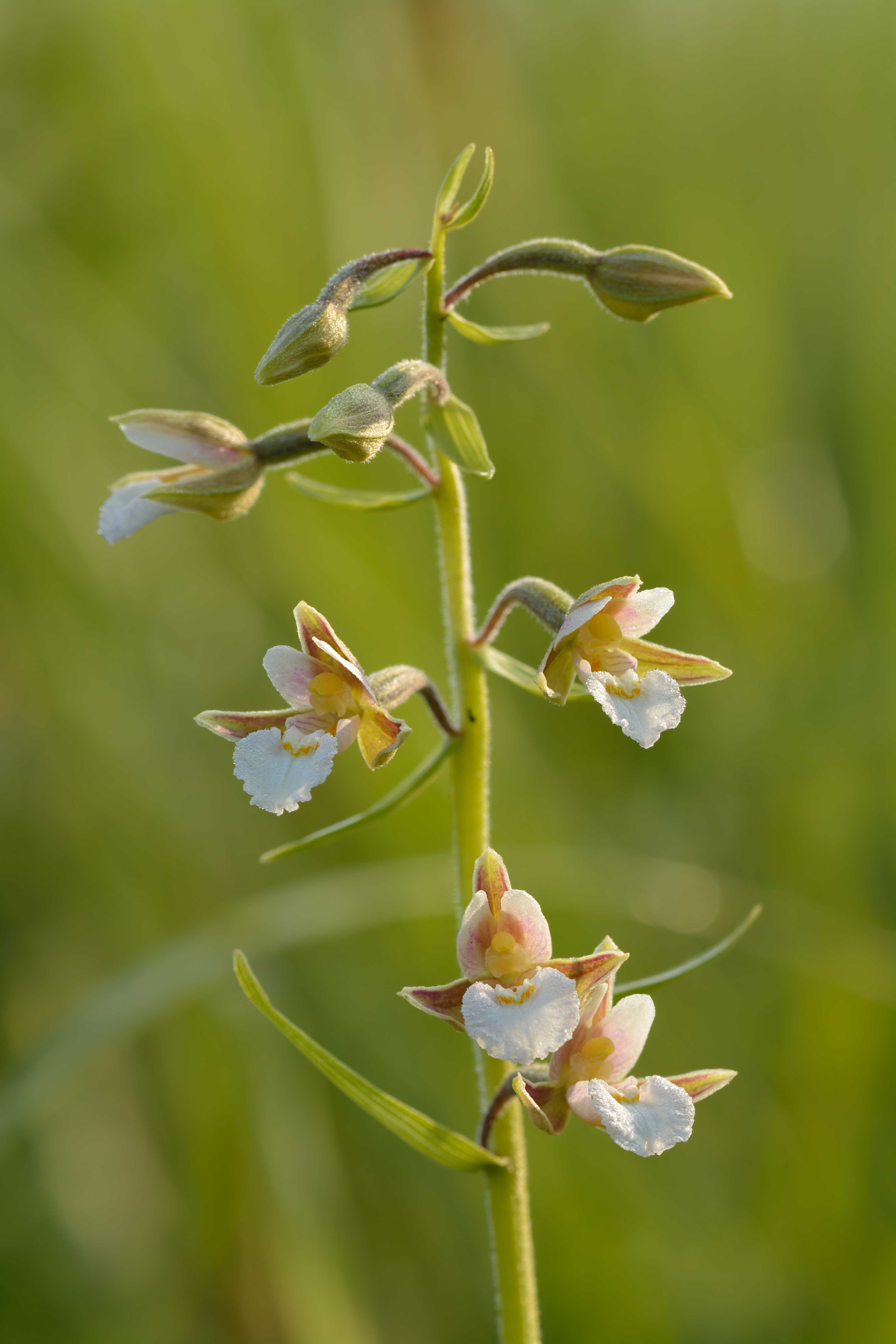 Marsh helleborine (Epipactis palustris). Meadow in Illurmaa village, Northwestern Estonia.